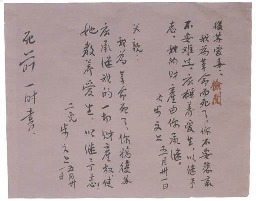 Wang Buwen's will